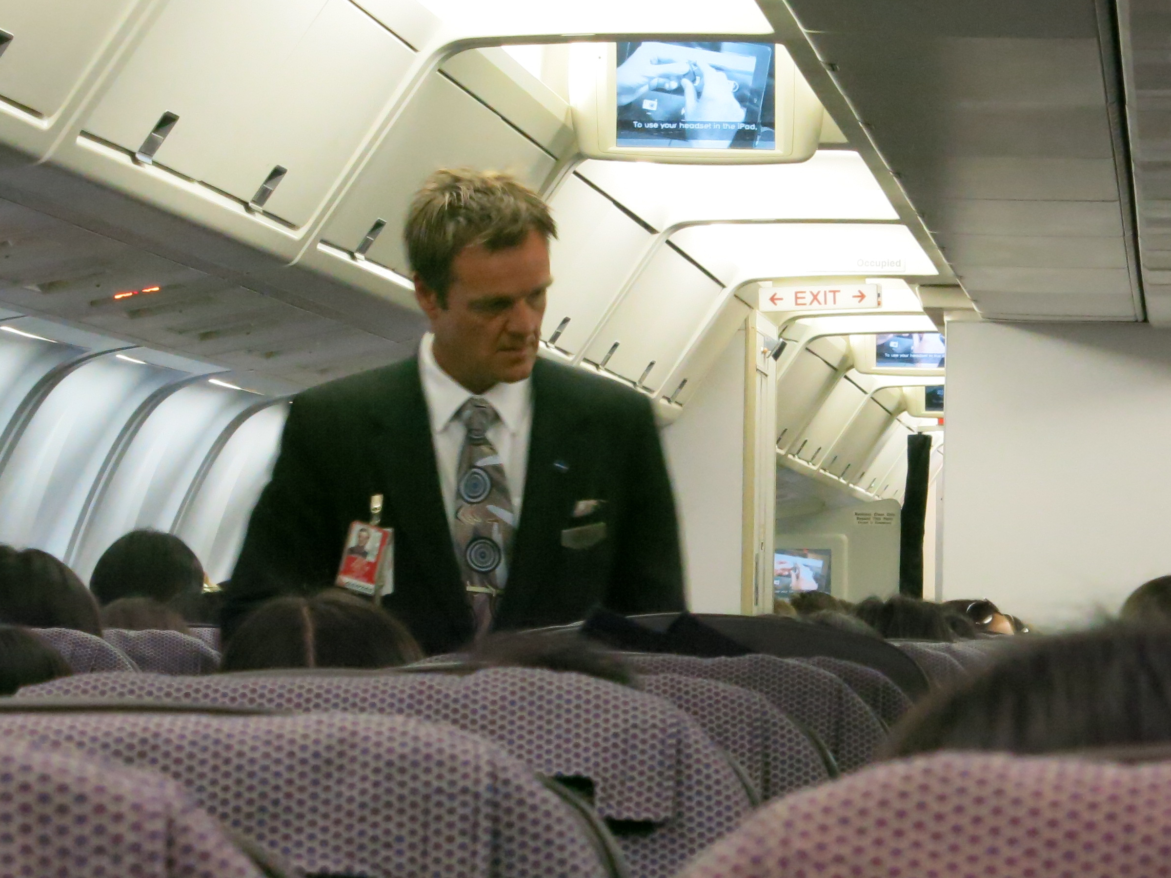 A flight attendant on Qantas Airlines.